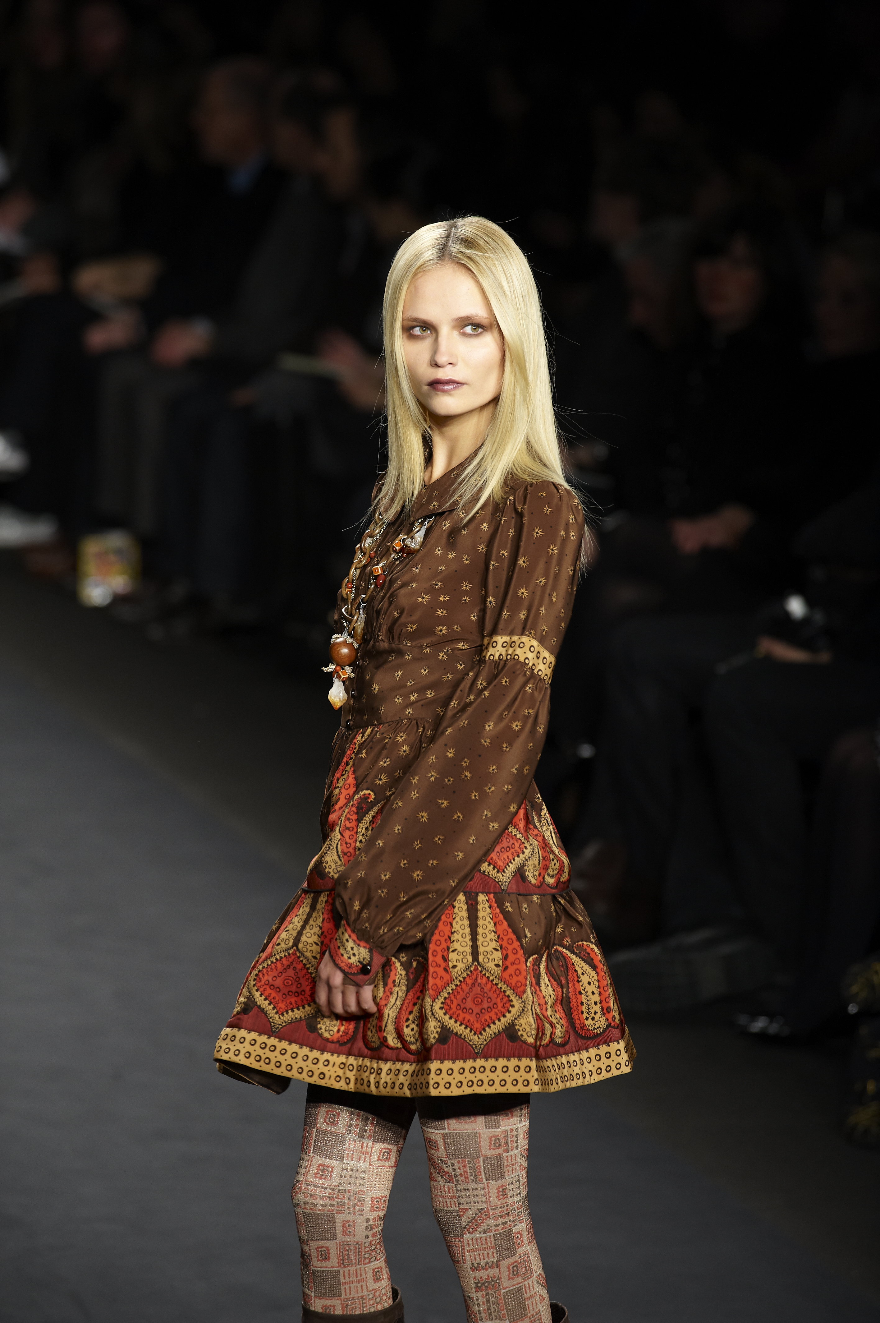 A model walks the runway at the Anna Sui Fall/Winter 2010 show at New York Fashion Week, February 2010.